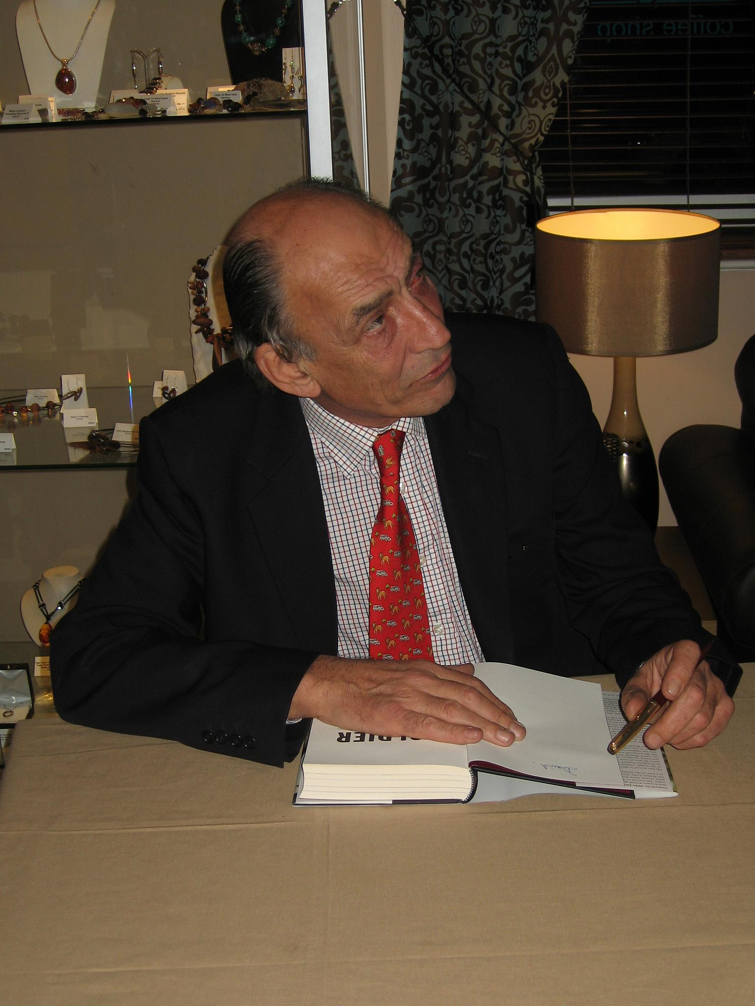 General Sir Mike Jackson, signing his autobiography, Soldier.